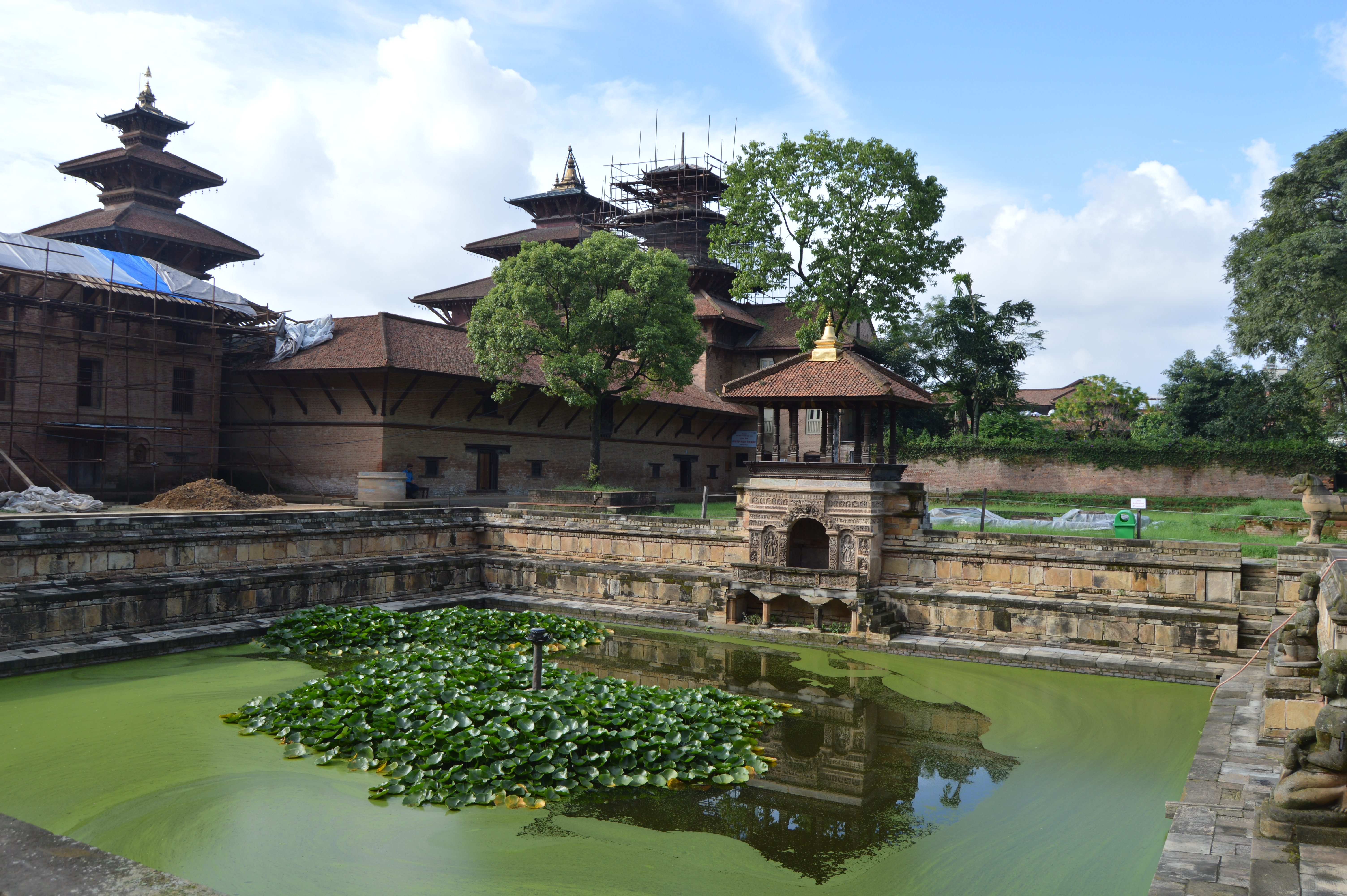 Bhandarkhal Garden.The focal element of the garden behind the palace, the Bhandarkhal water tank was built in 1647 as the main water storage facility for the Darbar. The architecture of the tank incorporates a meditation pavilion, a stepped terrace, two stone lions, a carved stone spout, and relief carvings dating to the 17th century. The tank is connected to Patan’s historic water infrastructure, channeling groundwater from nearby sources through terracotta channels. The tank had dried up and was in ruins until extensive restoration in 2012.